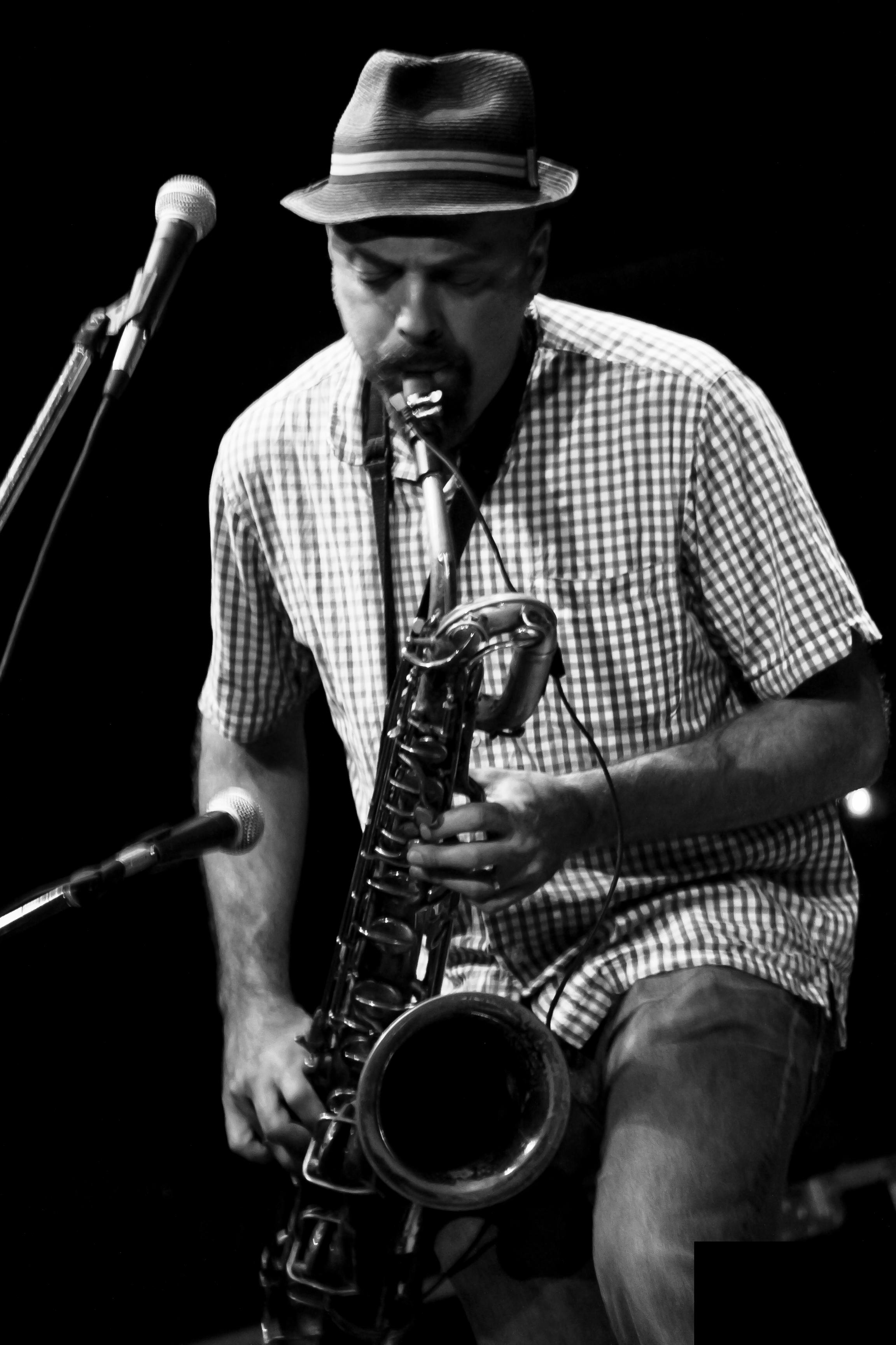 Dana Colley performing with Members of Morphine and Jeremy Lyons in Buenos Aires, Argentina. November 2011.